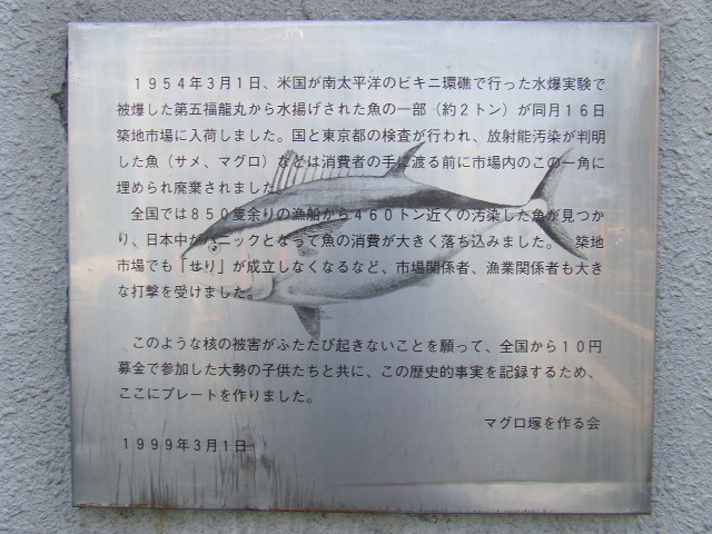 Monument of Daigo-Fukuryu-Maru,Tsukiji fish market,Chuo,Tokyo,Japan